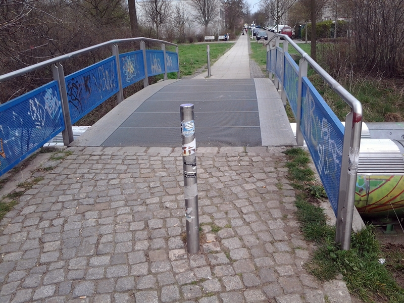 Bridge on Wuhletal Trail